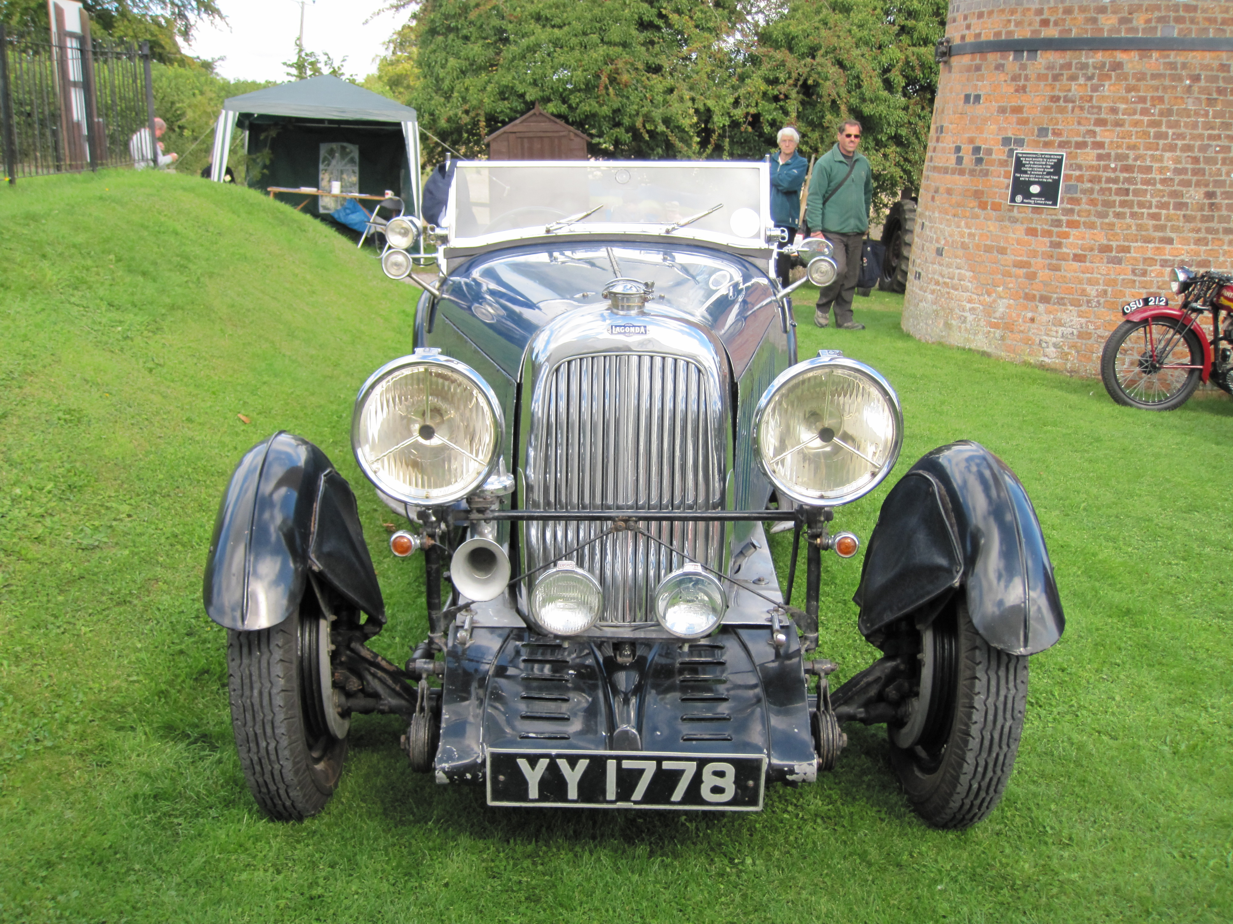 1932 Lagonda 2-litre 4-seater tourer Crofton Marlborough Wiltshire